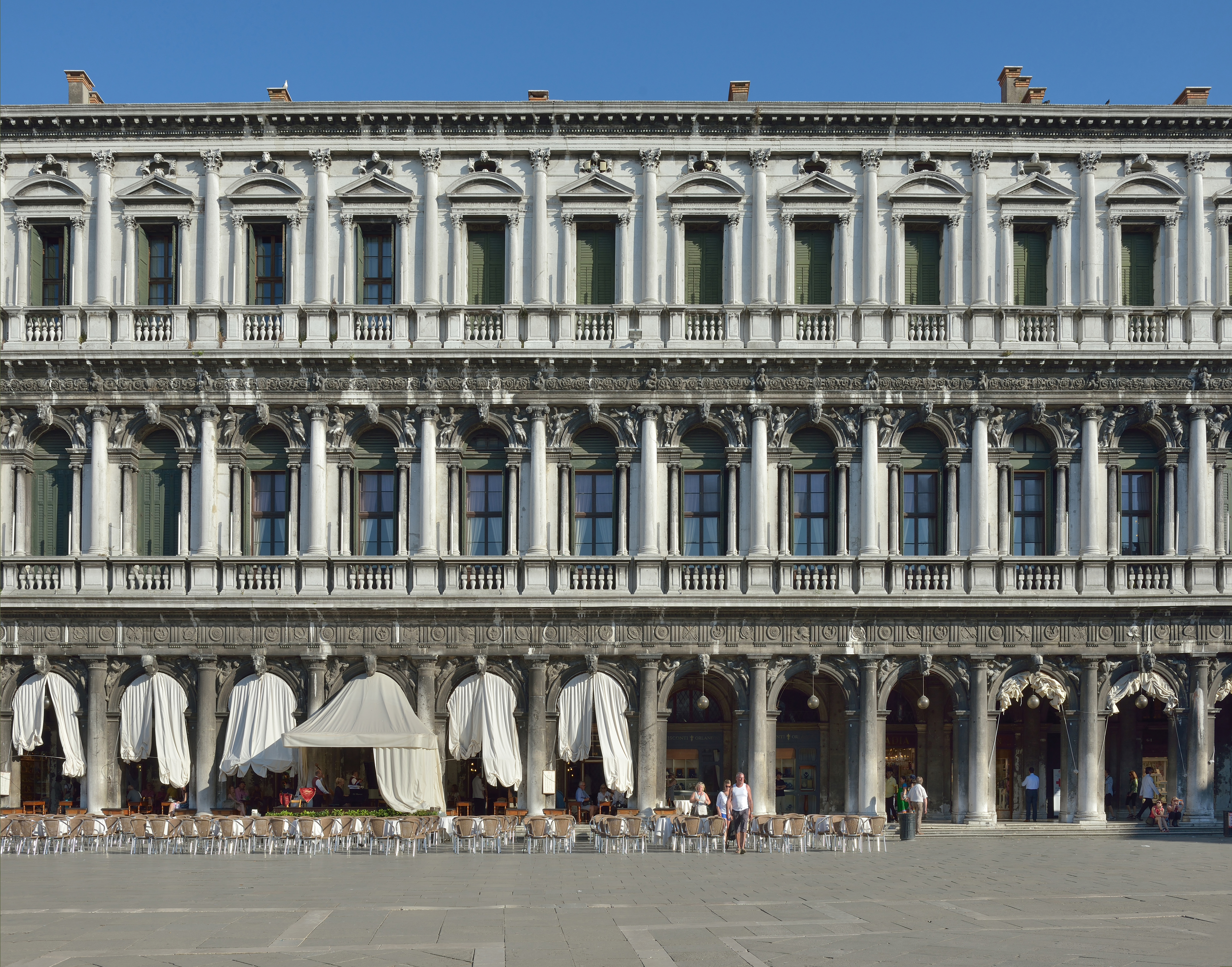 Detail of the facade of the Procuratie nuove palace in Venice.